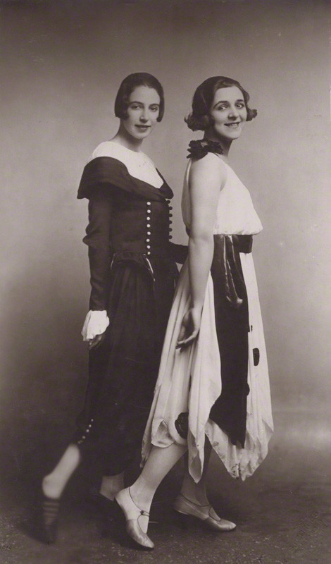 Gwen Farrar and Norah Blaney, 1920s, (permission of the National Portrait Gallery, London)